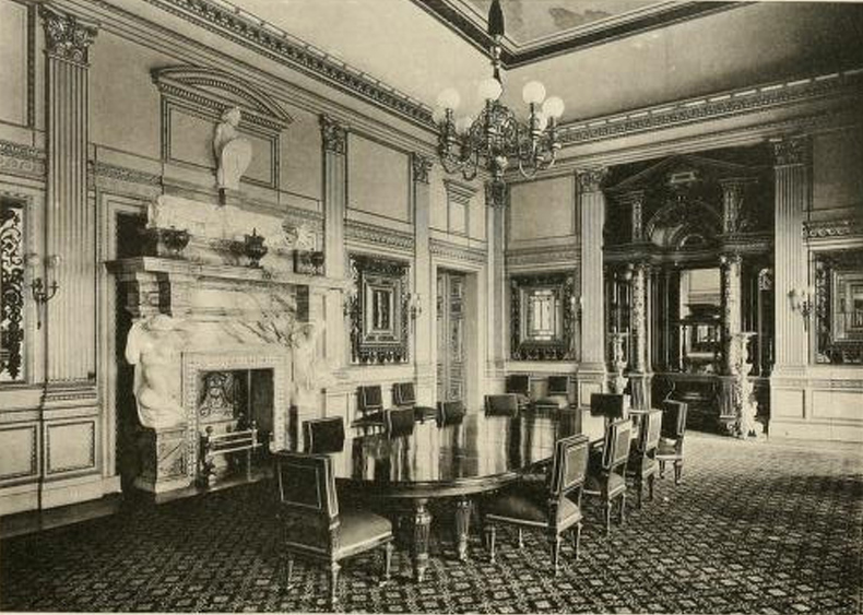 The Dining Room in Dorchester House circa 1905